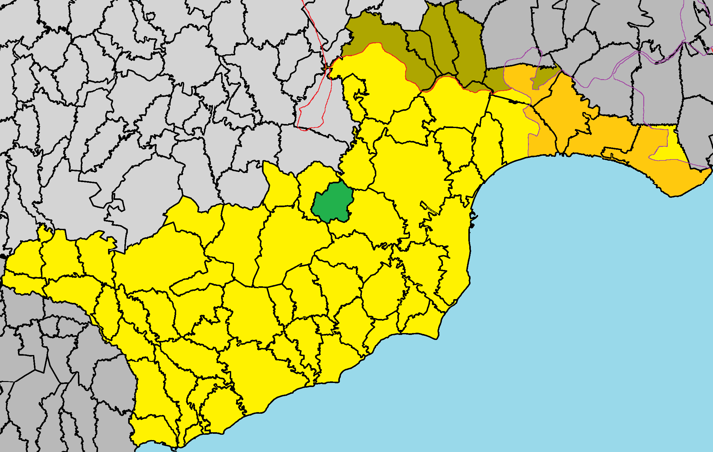 Agia Anna in Larnaca District.